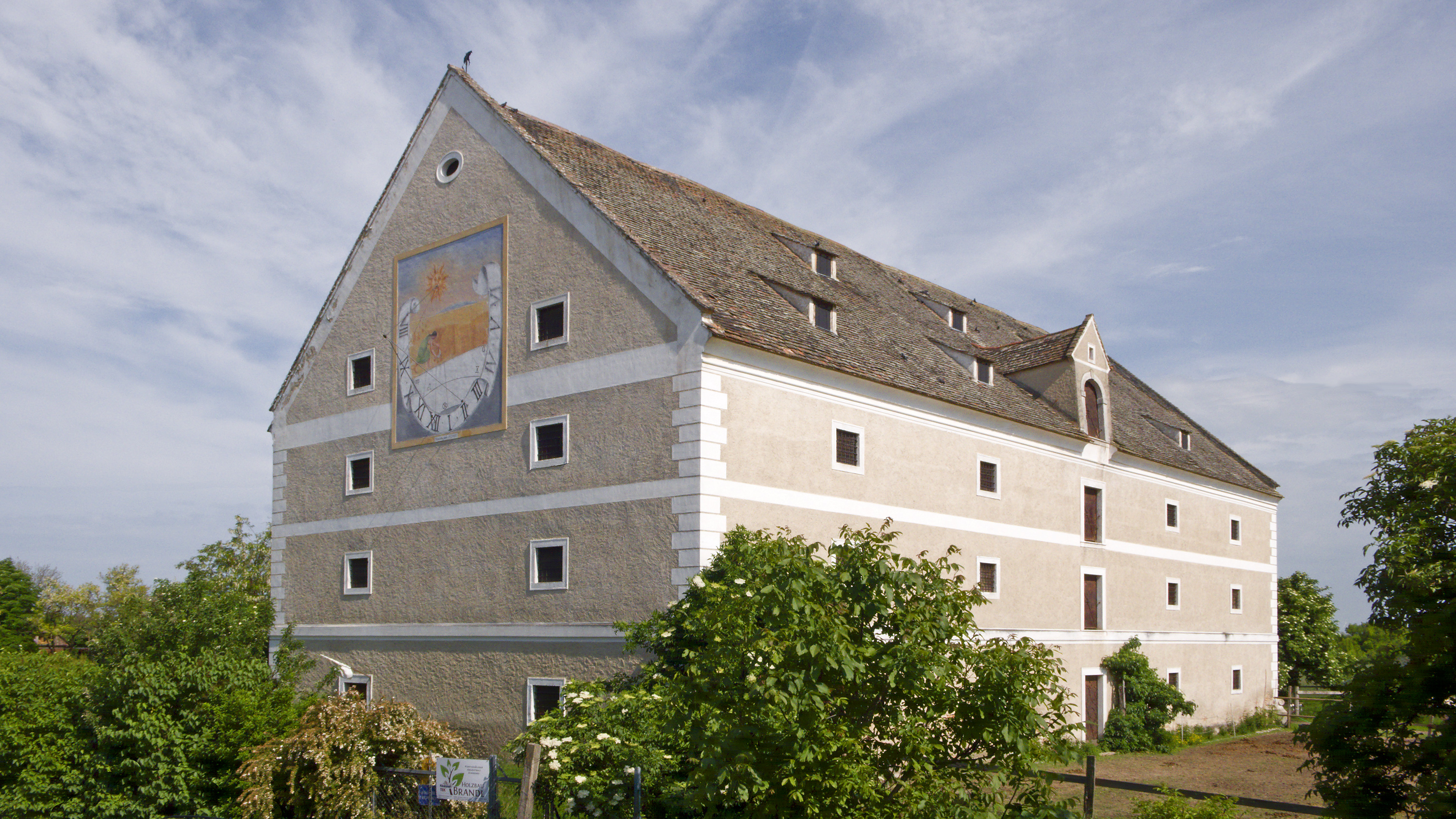 Granary near Schloss Essling in Vienna Donaustadt